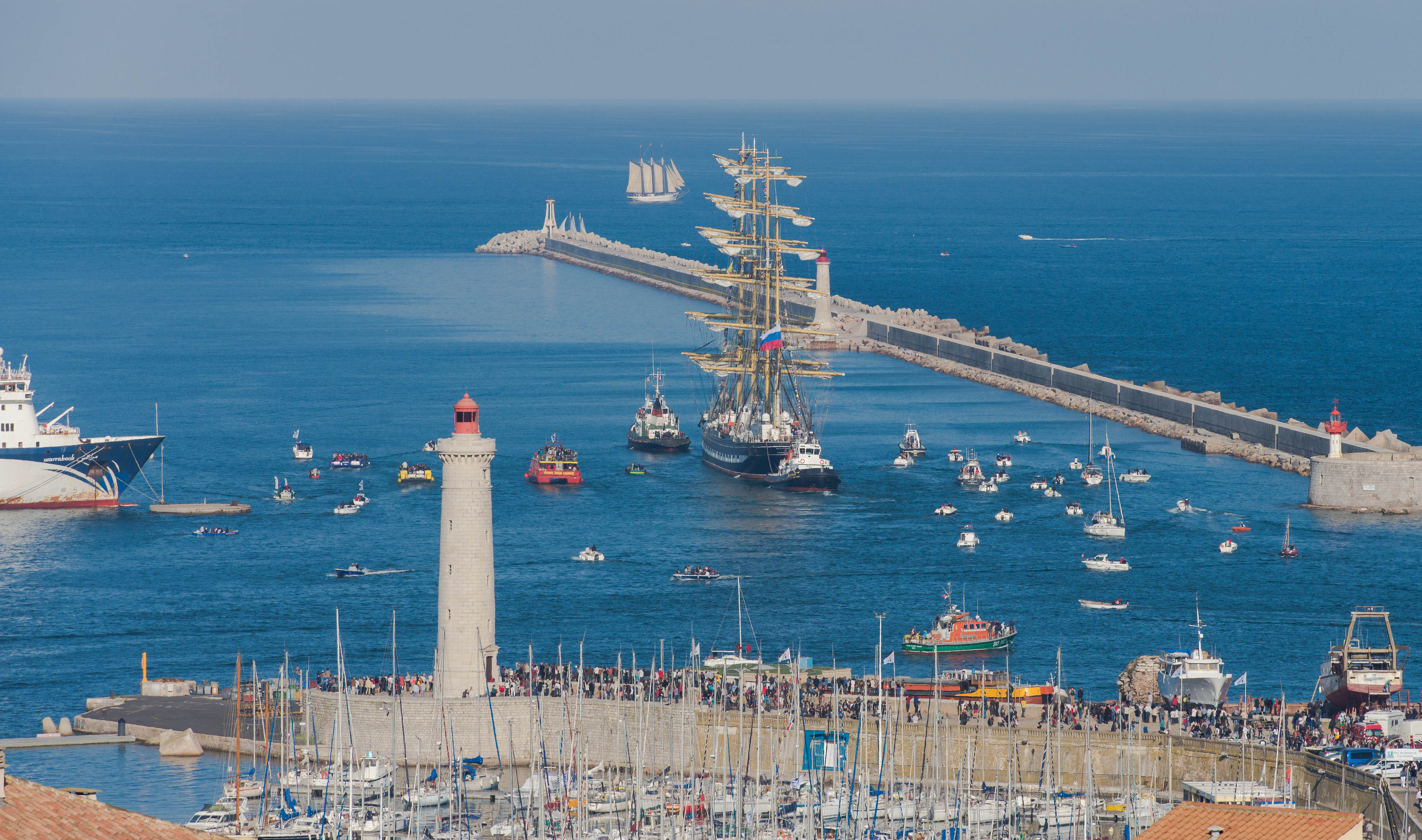 The Kruzenshtern (Russian four-masted barque, 1926) leave the harbour of Sète, Hérault, France.